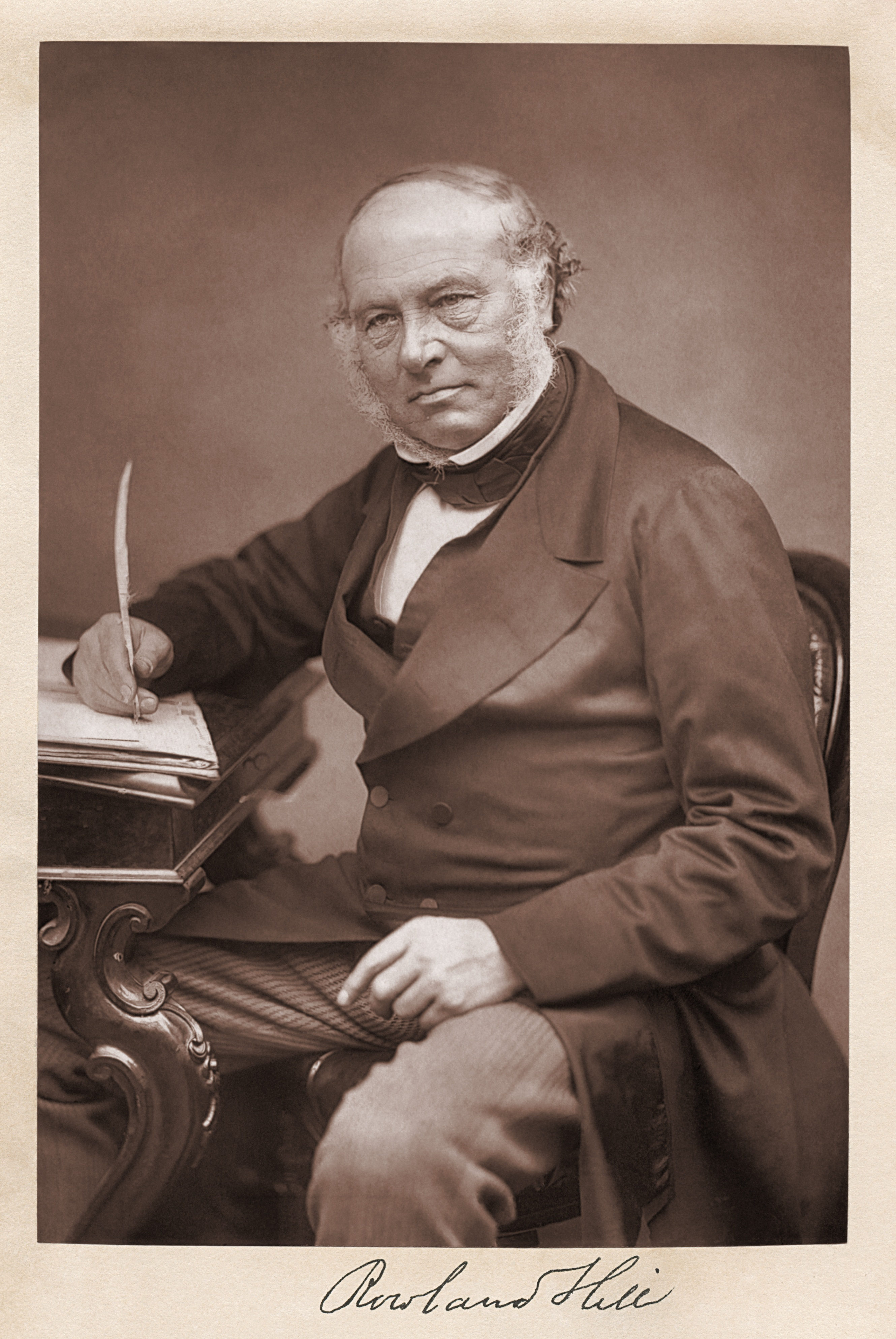 Photograph and signature of Rowland Hill (postal reformer)